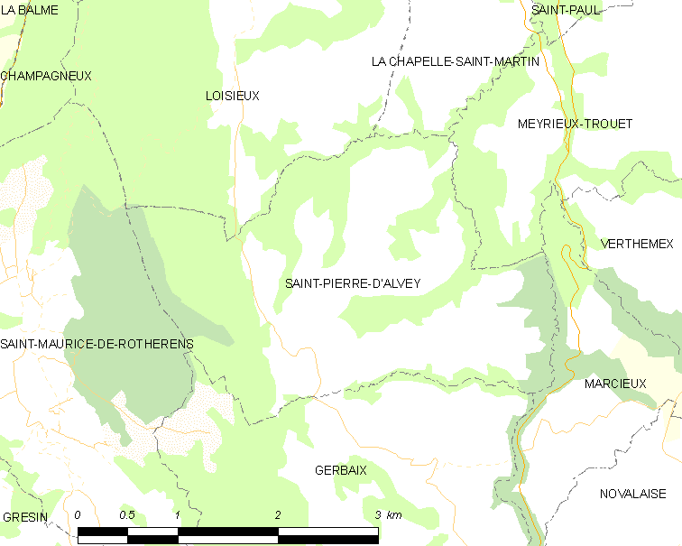 Map of French municipality Saint-Pierre-d'Alvey